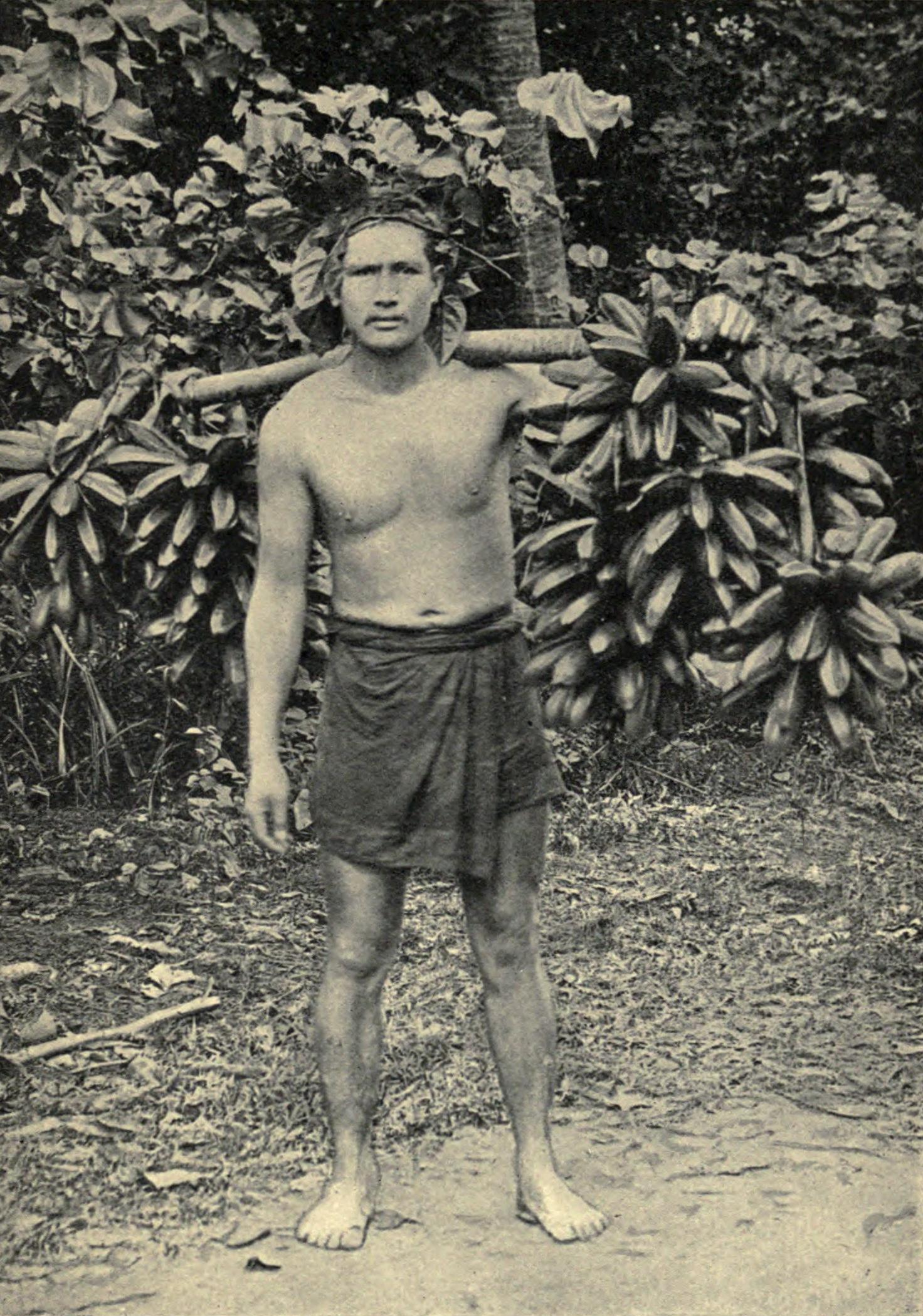 Hillsman carrying feis to Papeete, by Coulon.